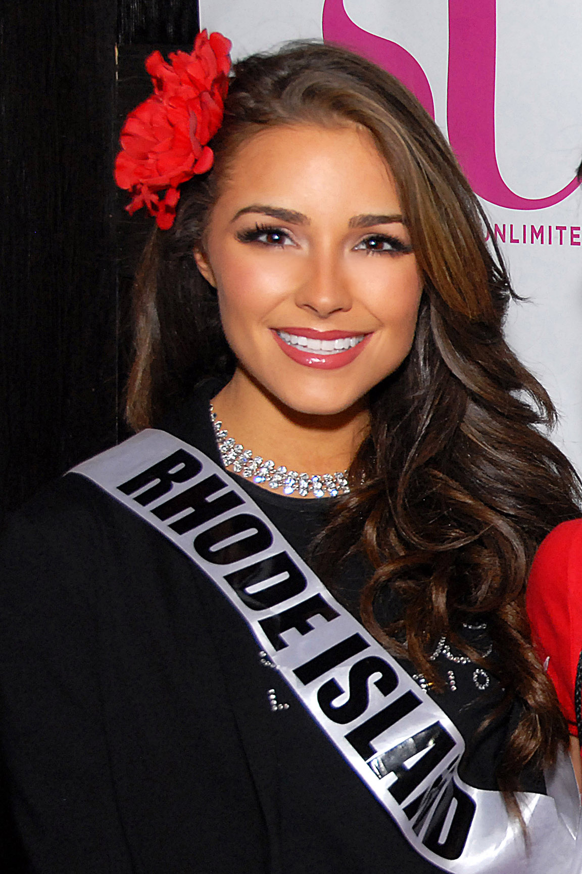 Olivia Culpo, Las Vegas, NV on May 28, 2012 - Photo by Glenn Francis and